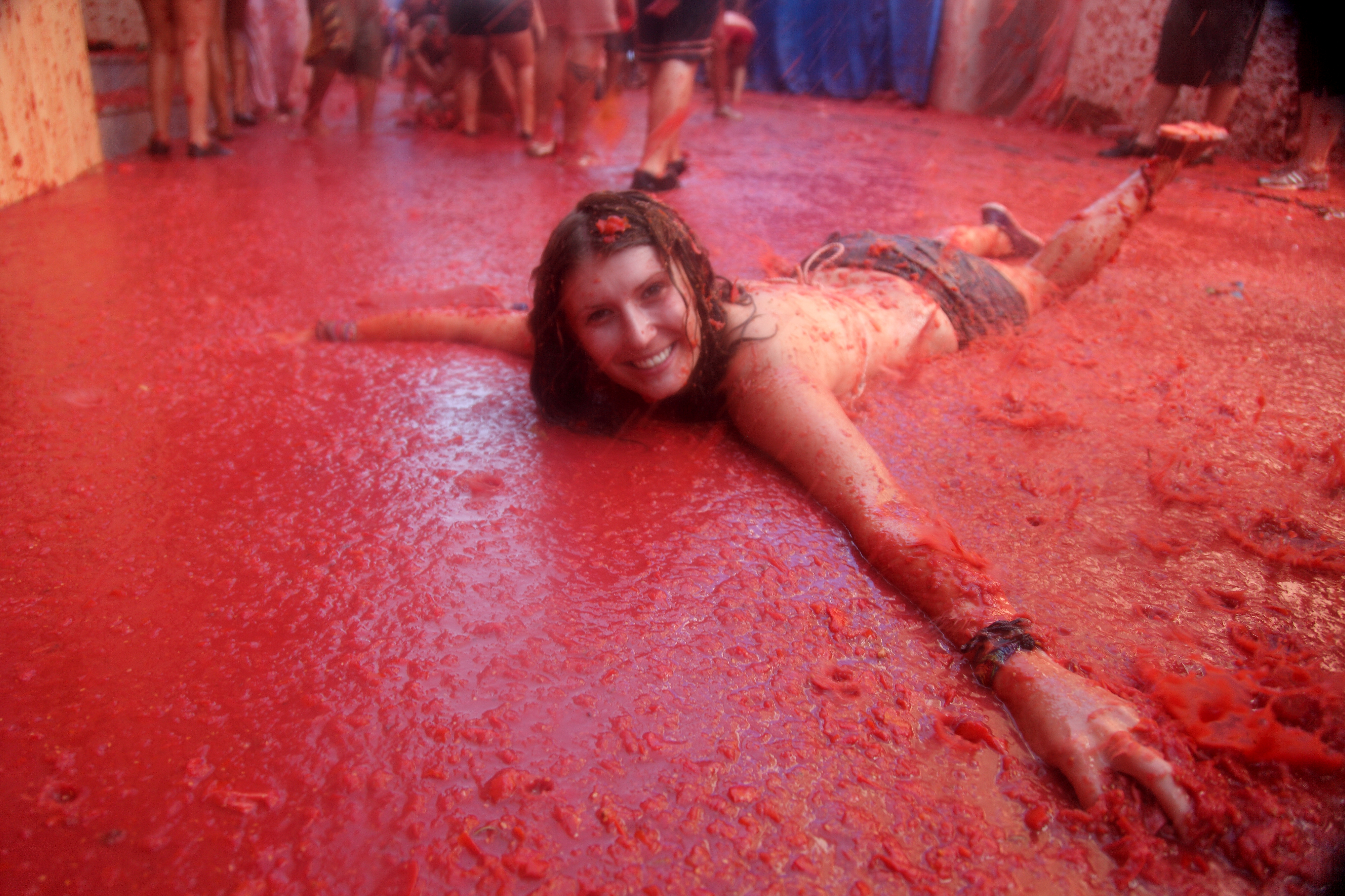 La Tomatina is a food fight festival held on the last Wednesday of August each year in the town of Buñol in the Valencia region of Spain. Tens of metric tons of over-ripe tomatoes are thrown in the streets in exactly one hour. Approximately 20,000–50,000 tourists come to find out more about the tomato fight, multiply by several times Buñol's normal population of slightly over 9,000. There is limited accommodation for people who come to La Tomatina, and thus many participants stay in Valencia and travel by bus or train to Buñol, about 38 km outside the city. In preparation for the dirty mess that will ensue, shopkeepers use huge plastic covers on their storefronts in order to protect them. They also use about 150,000 (kg) tomatoes, just about 90,000 pounds (